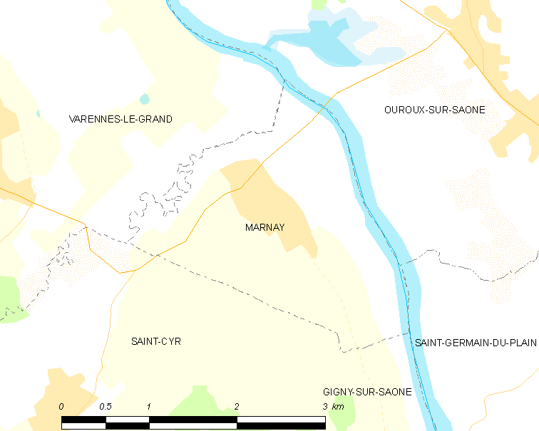 Map of French municipality